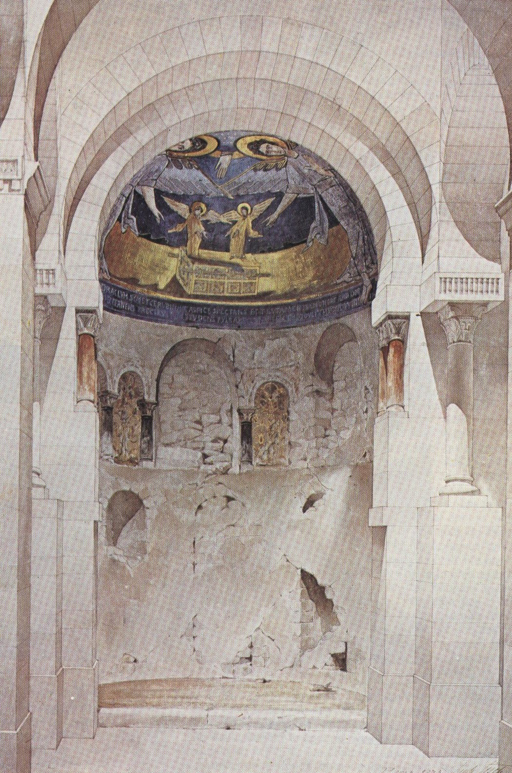 church of Germiny les prés (inside) by Juste Lisch